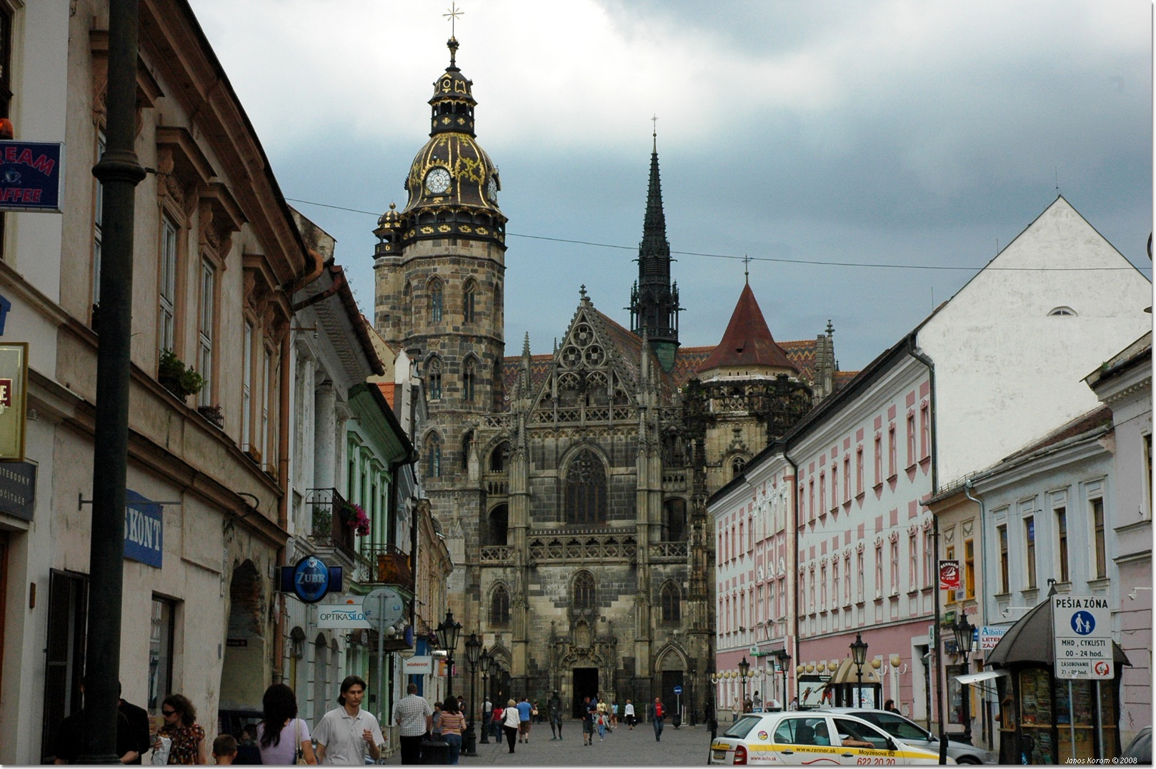 St. Elisabeth Cathedral